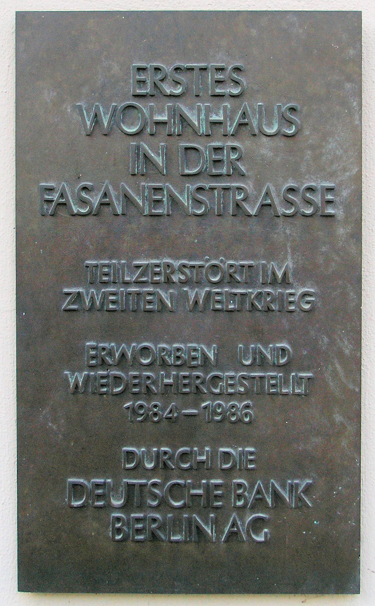 Memorial plaque, First appartment building in Fasanenstraße, Fasanenstraße 24, Berlin-Charlottenburg, Germany Koordinate:52°30′6″N 13°19′38″E / 52.50167°N 13.32722°E